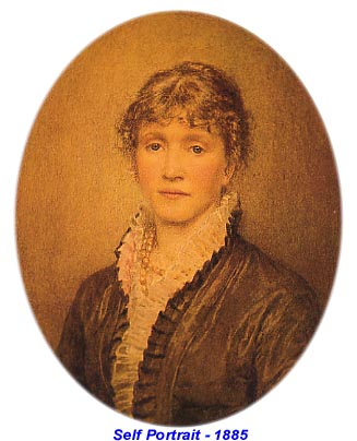 Helen Allingham.(1848-1926) Self-portrait. 1885